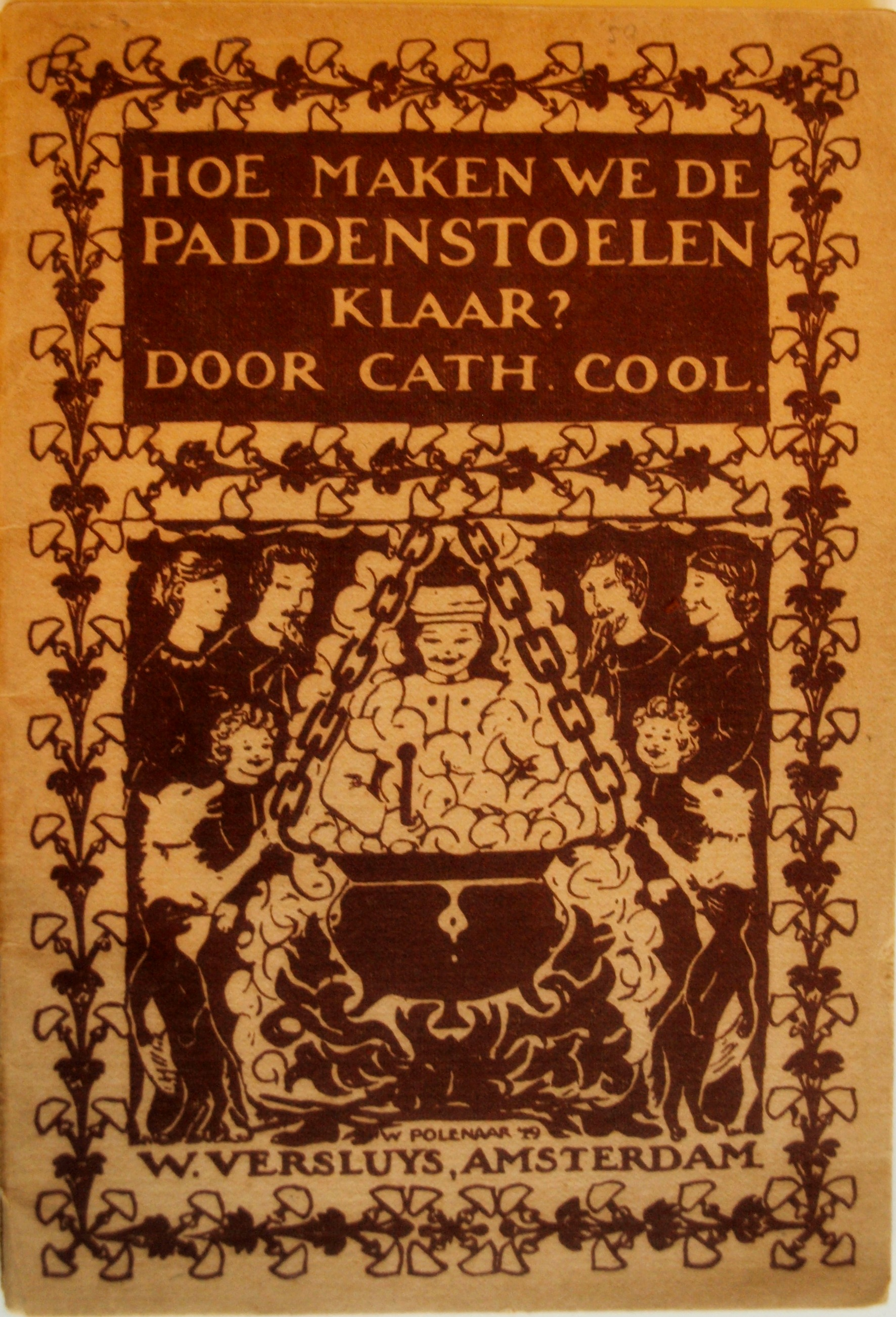 cover of Hoe maken we de paddenstoelen klaar, 1919; by Cath. Cool